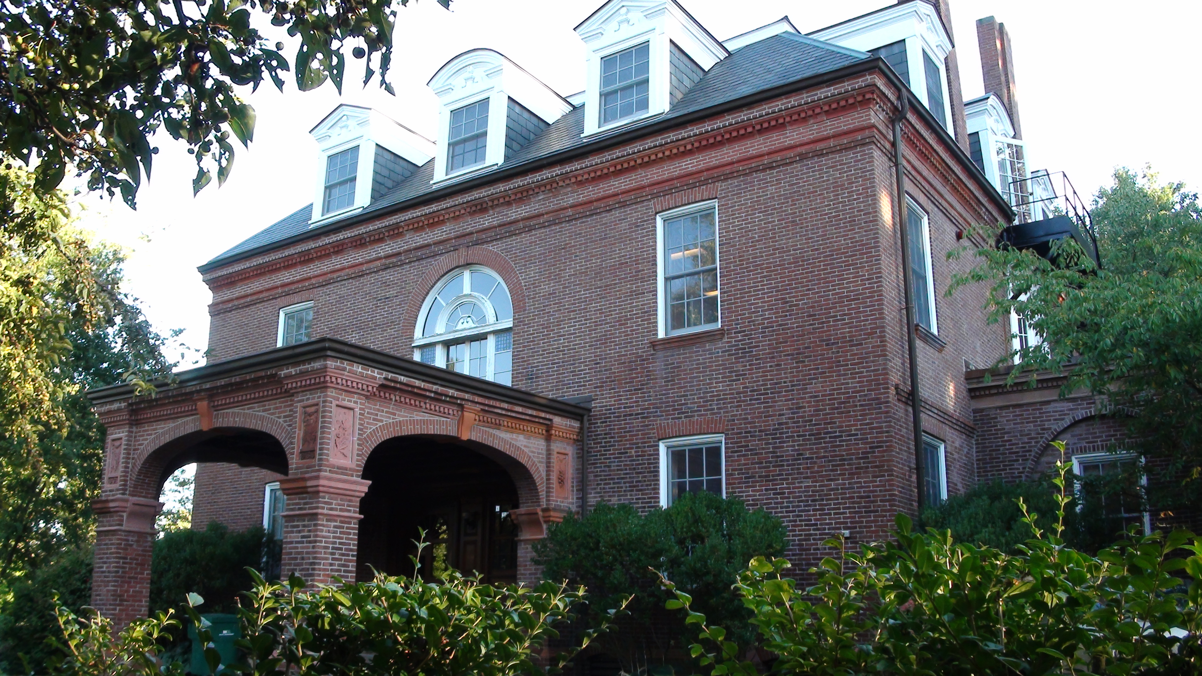 The location for the Center for Retirement Research at Boston College.